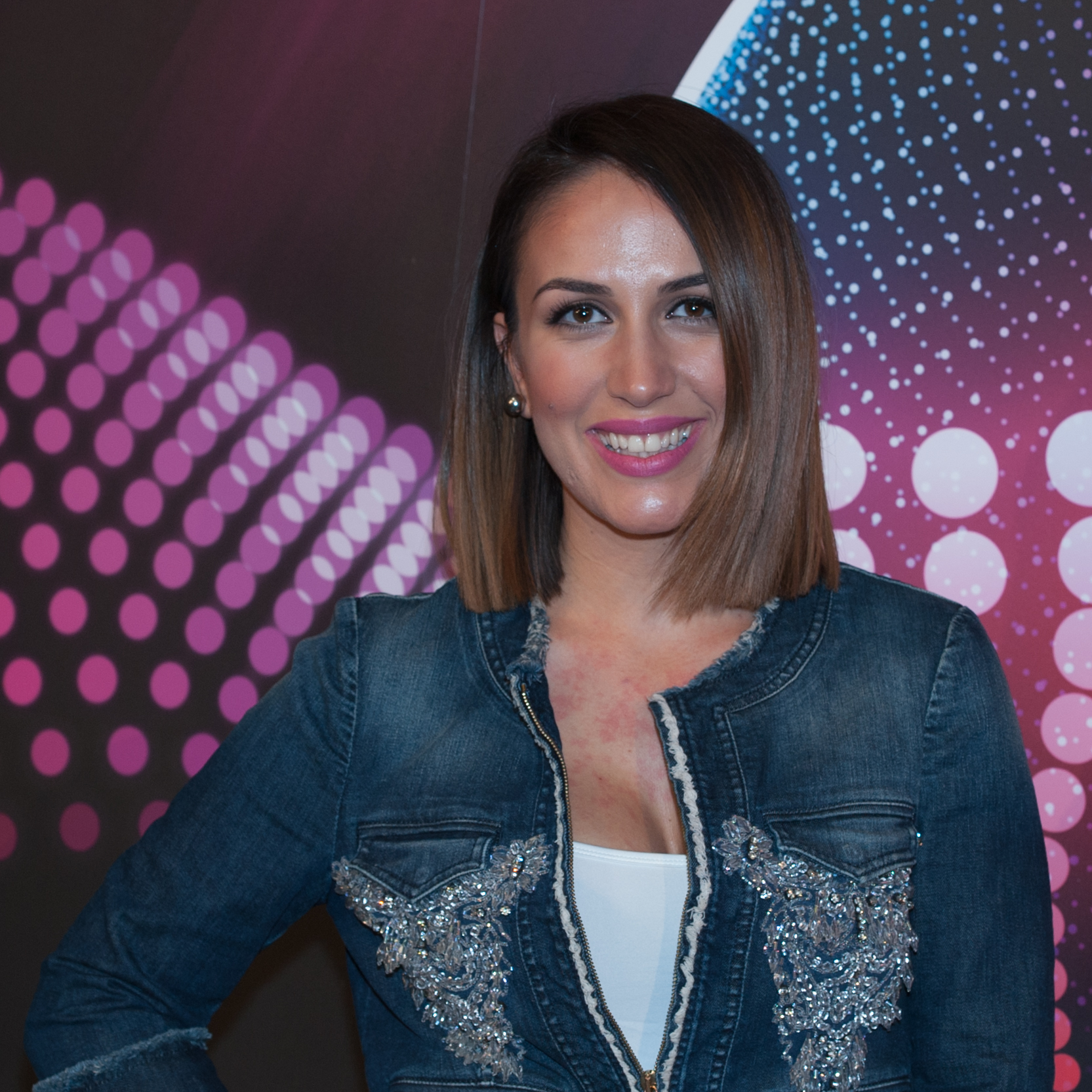 Eurovision Song Contest Vienna 2015: Elhaida Dani, Albania